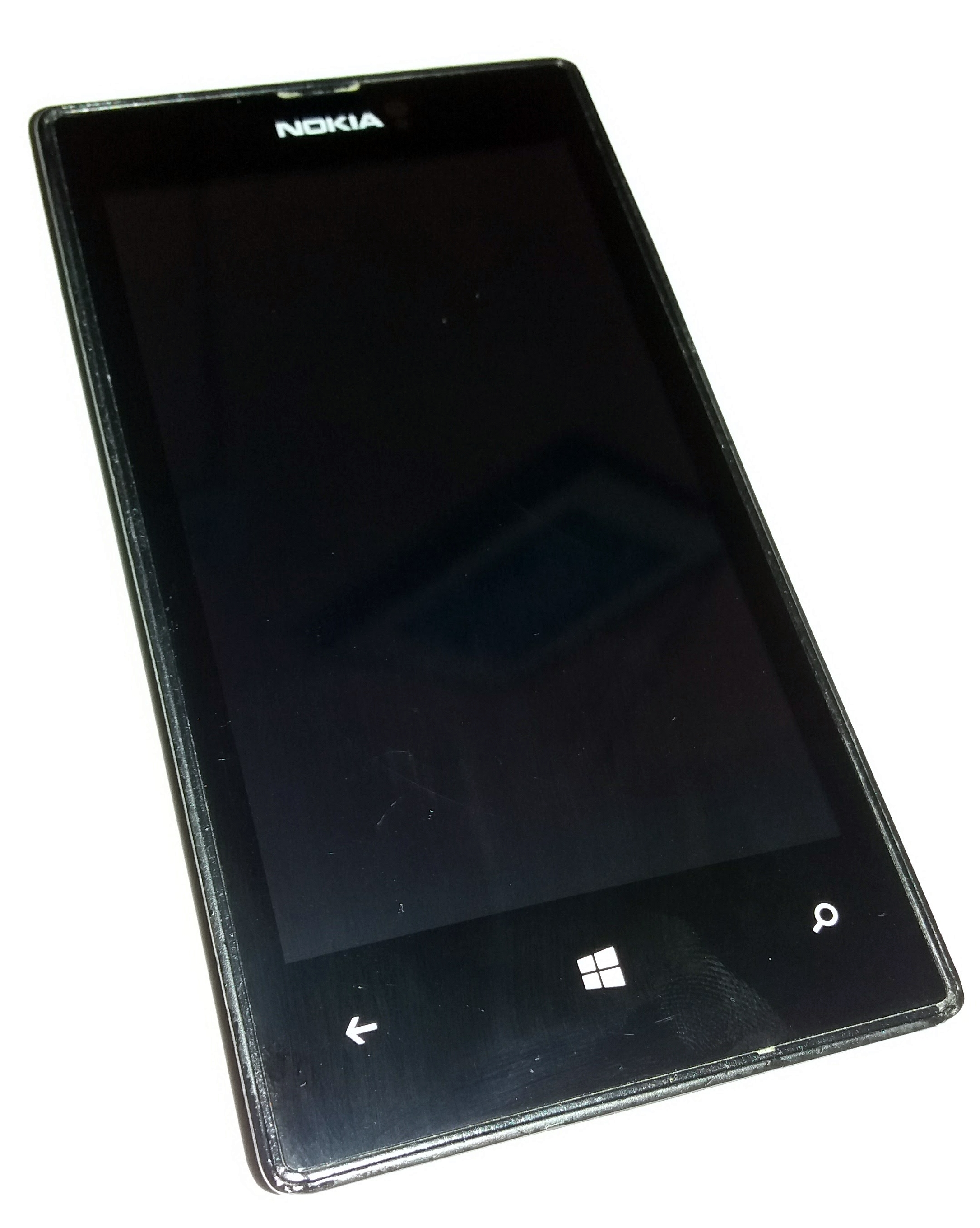 A Nokia Lumia 520 Lumia Denim with Windows Phone 8.1